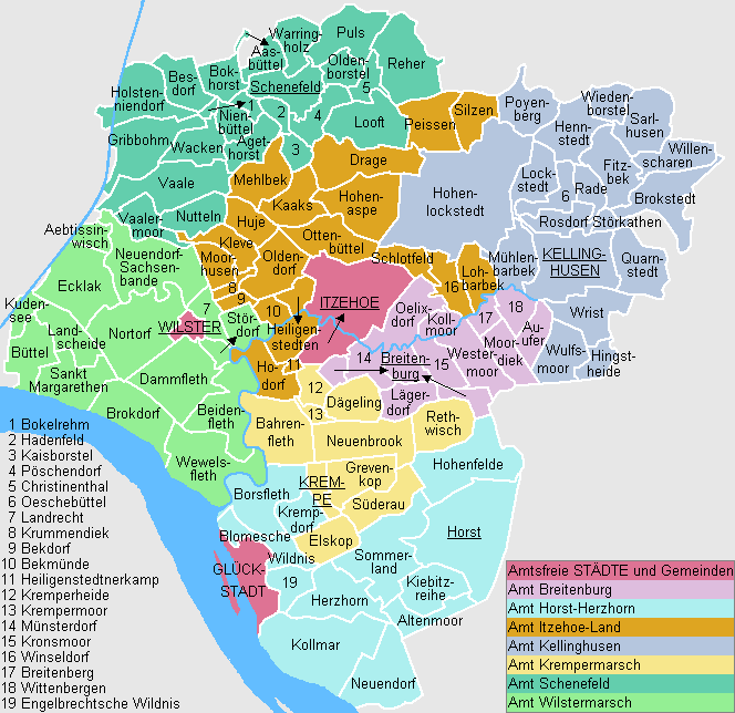 This map shows the Ämter (counties) and Gemeinden (municipalities) in the Kreis (district) Steinburg in Schleswig-Holstein, Germany.